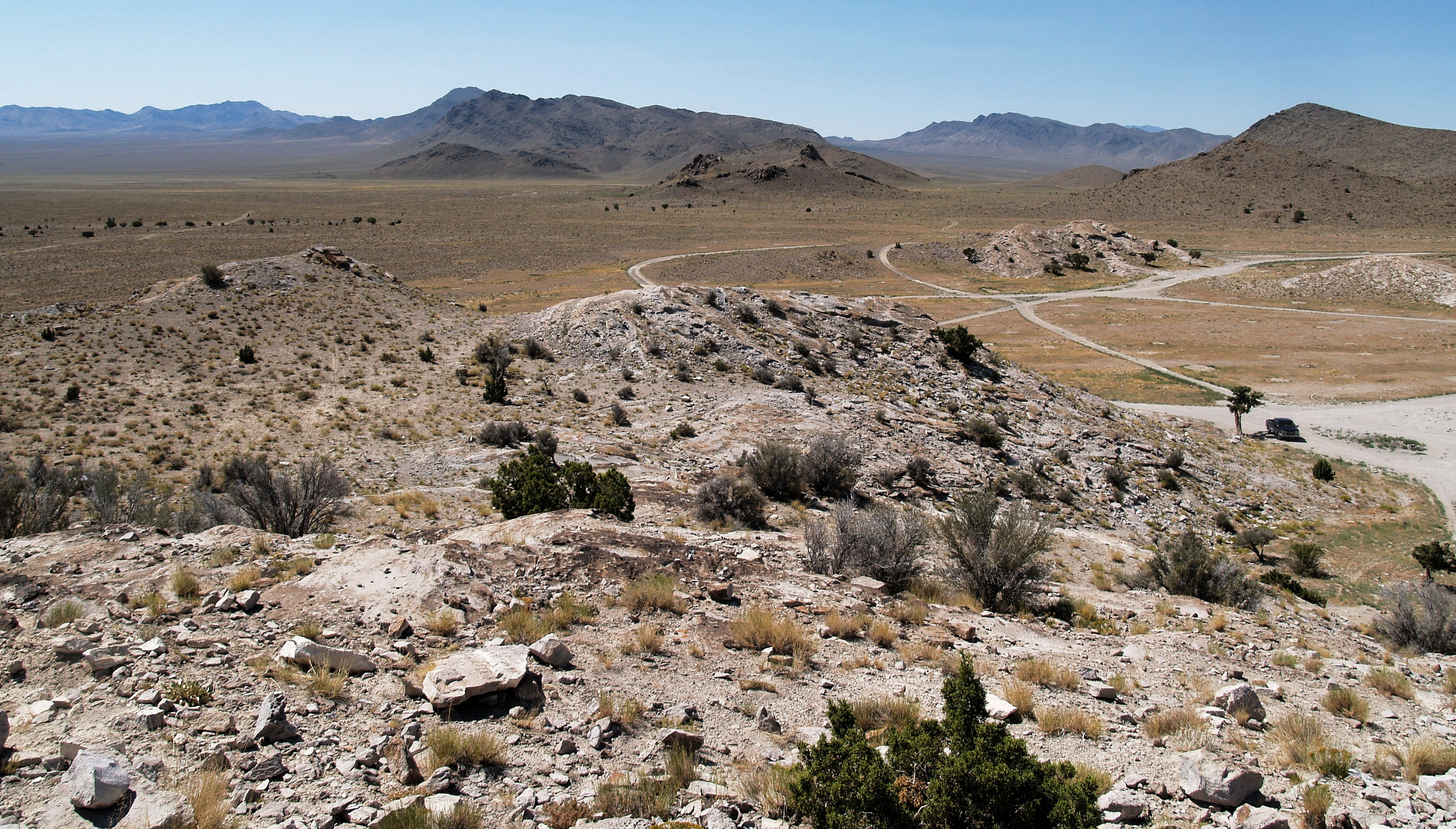 Photo of the ground structure on Topaz Mountain, Utah. It is a rockhounding site for topaz and other minerals, located in Juab County, Utah.